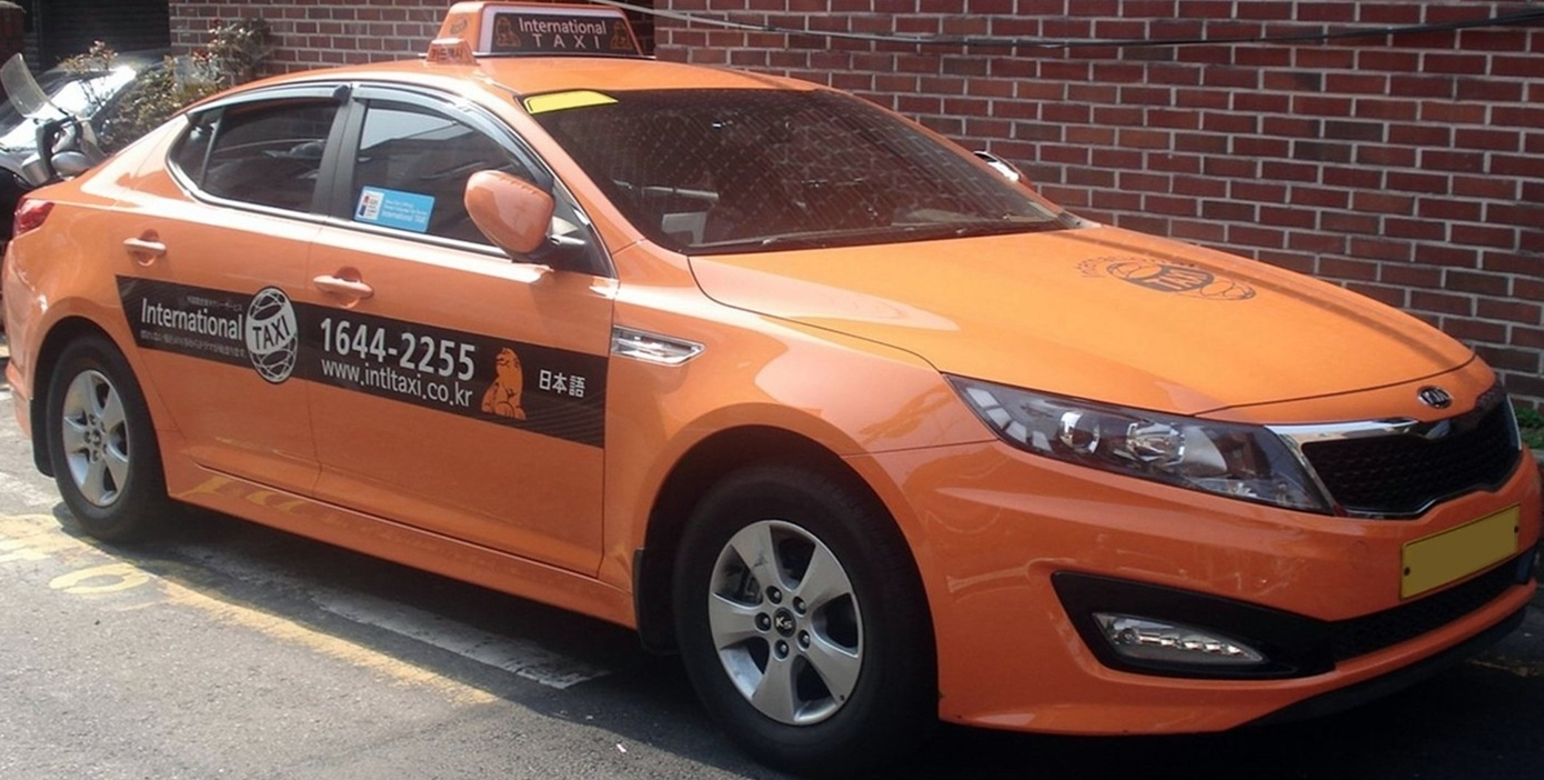 Kia K5